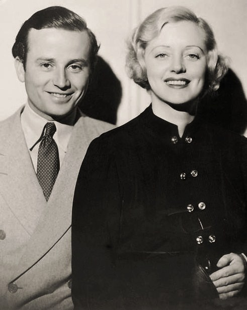 Frank Lawton and his wife Evelyn Laye - publicity still (cropped)